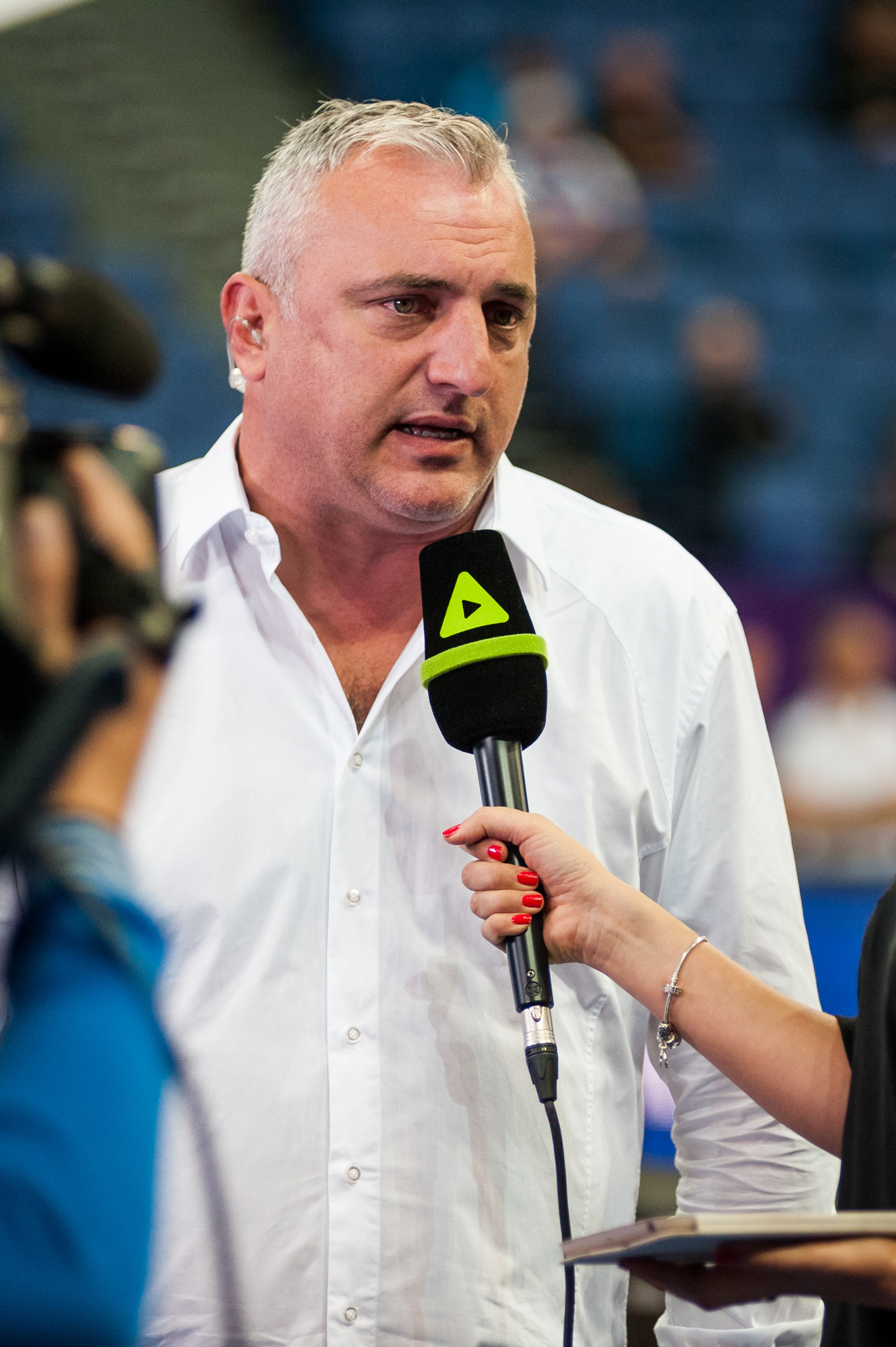 Former Slovenian basketball player Saša Dončić is being interviewed during the EuroBasket 2017 tournament in Helsinki, Finland. He is the father of the young Slovenian star Luka Dončić.